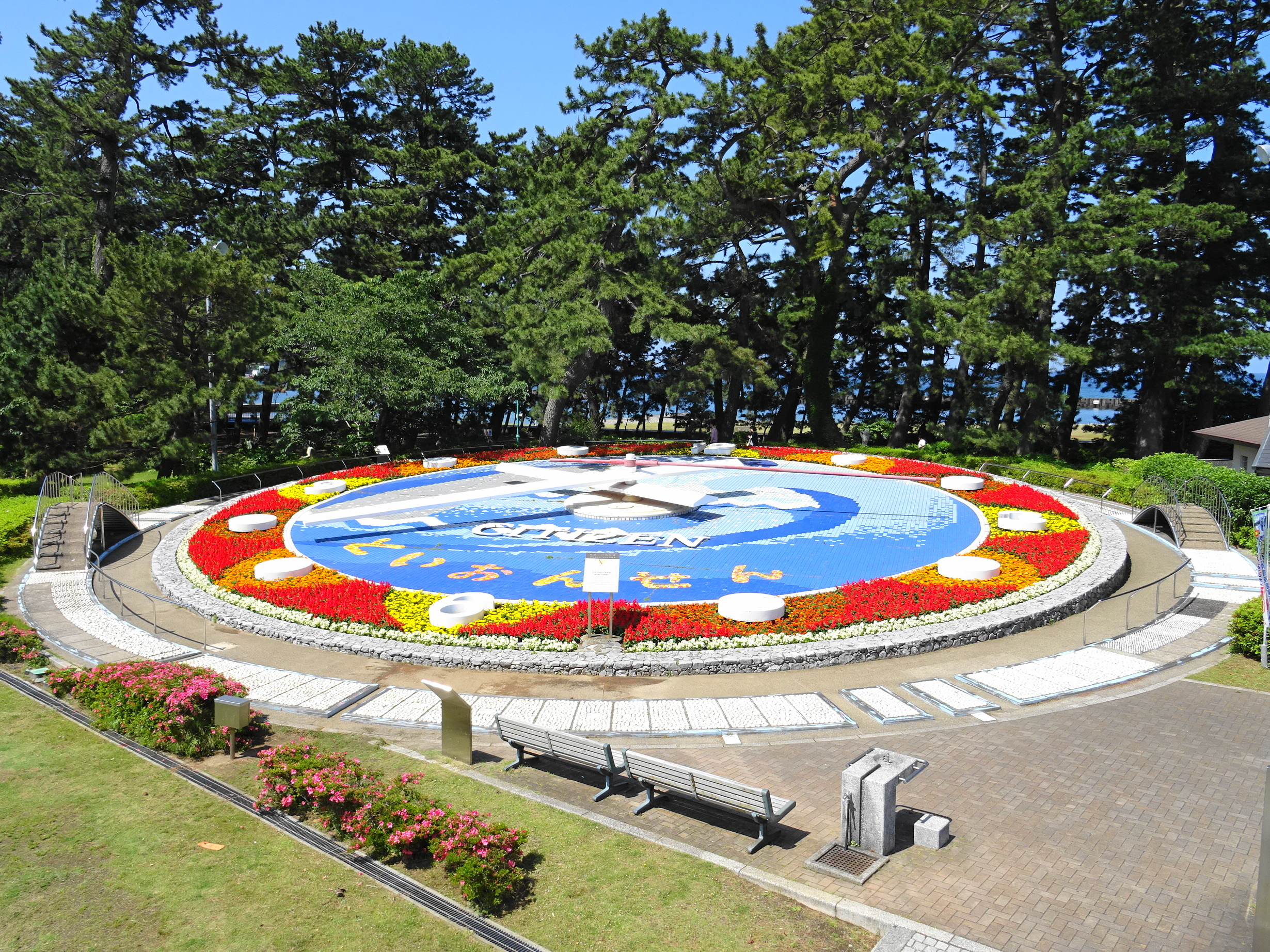 Floral clock of Toi, Izu-city, Shizuoka, Japan.